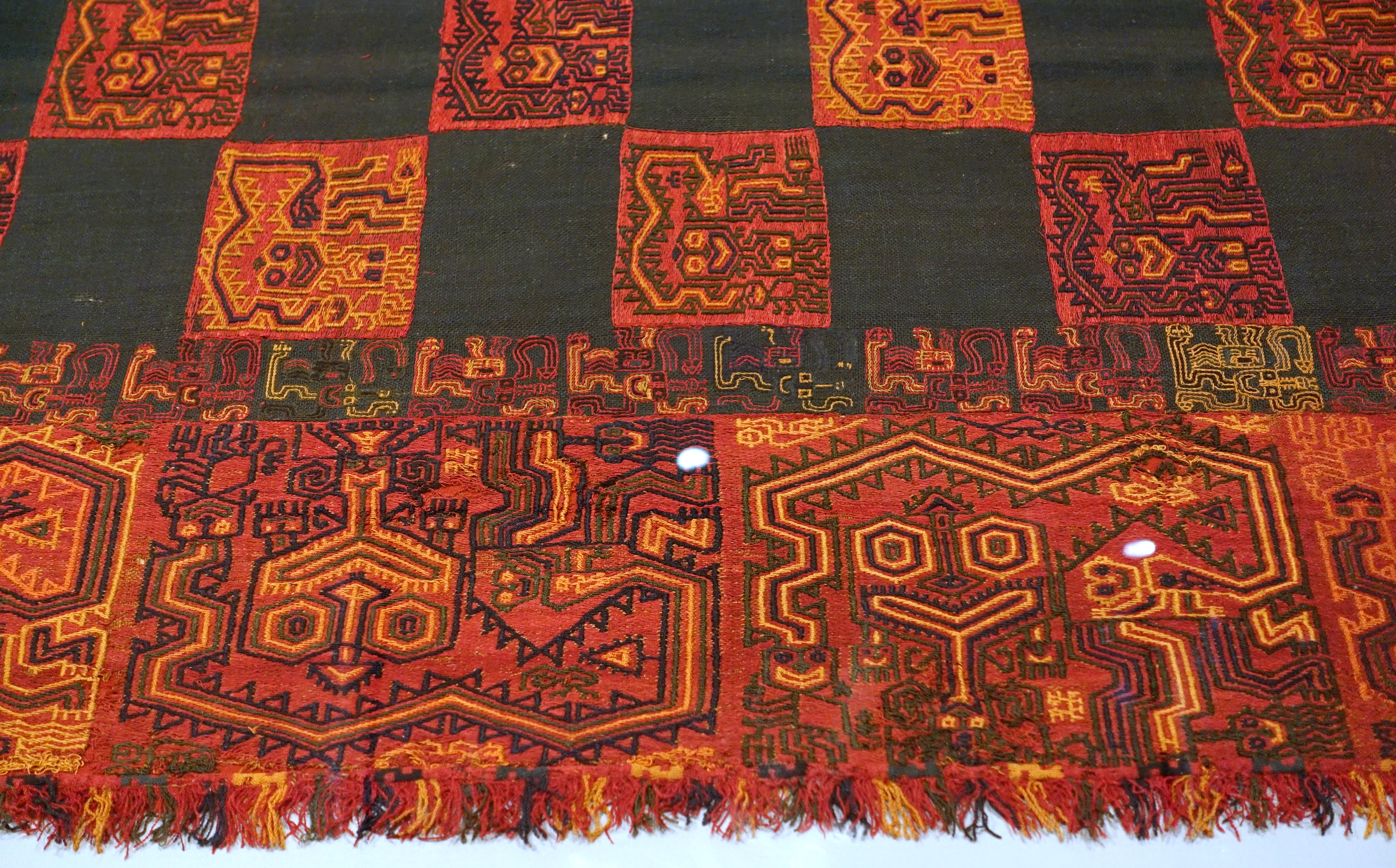 Exhibit in the Textile Museum, George Washington University, Washington, DC, USA. This work is old enough so that it is in the public domain.